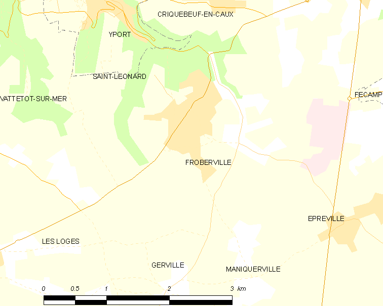 Map of French municipality Froberville